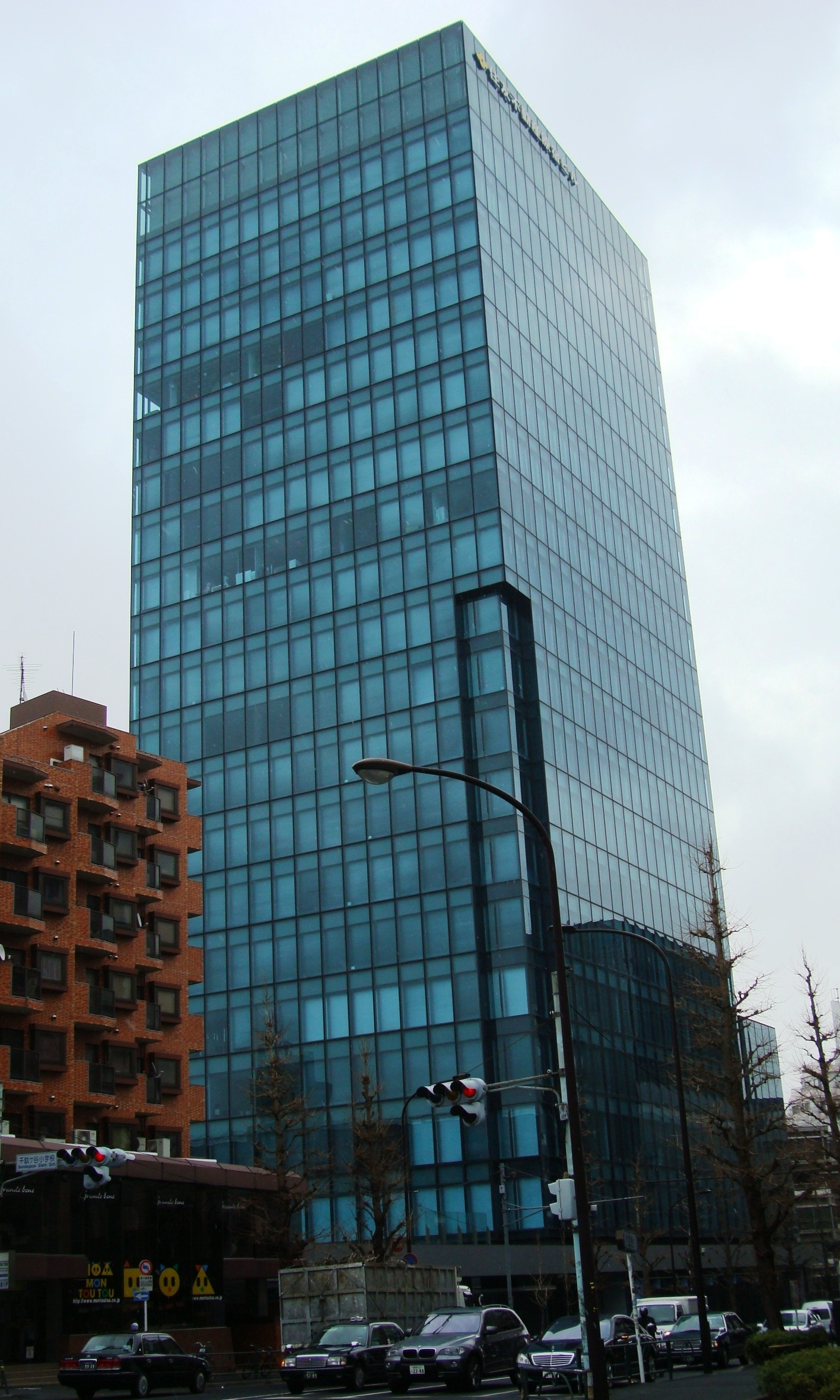 Sumitomo Fudosan Harajuku Biru, a 20-story office building in Harajuku, Tokyo